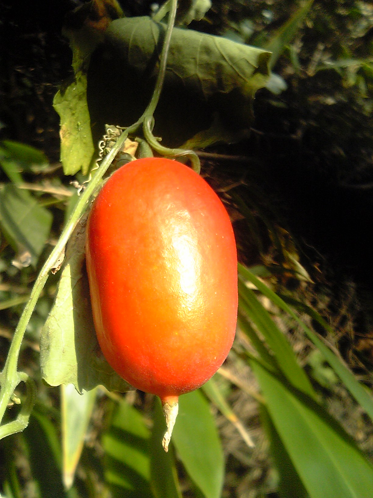 Scientific name Trichosanthes cucumeroides, Snake gourd's fruit and leaves in autumn of japan. See also, Flowers and leaves, the flower bloomed after the sunset., Fruits and vine